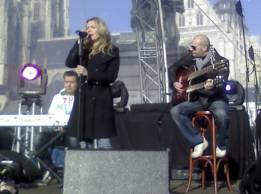 Sylver accoustic session @ radio 1212 (benefit for Haïti)